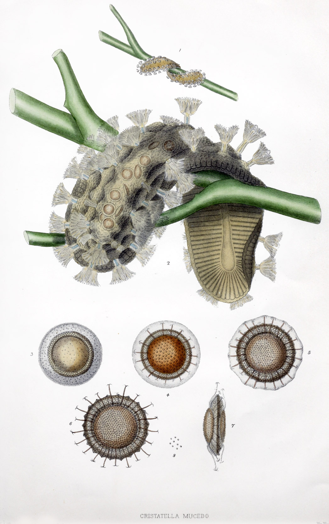 Cristatella Mucedo and its statoblast ; Plate/drawing from : Allman - A monograph of the fresh-water polyzoa including all the known species, both British and foreign (1856)